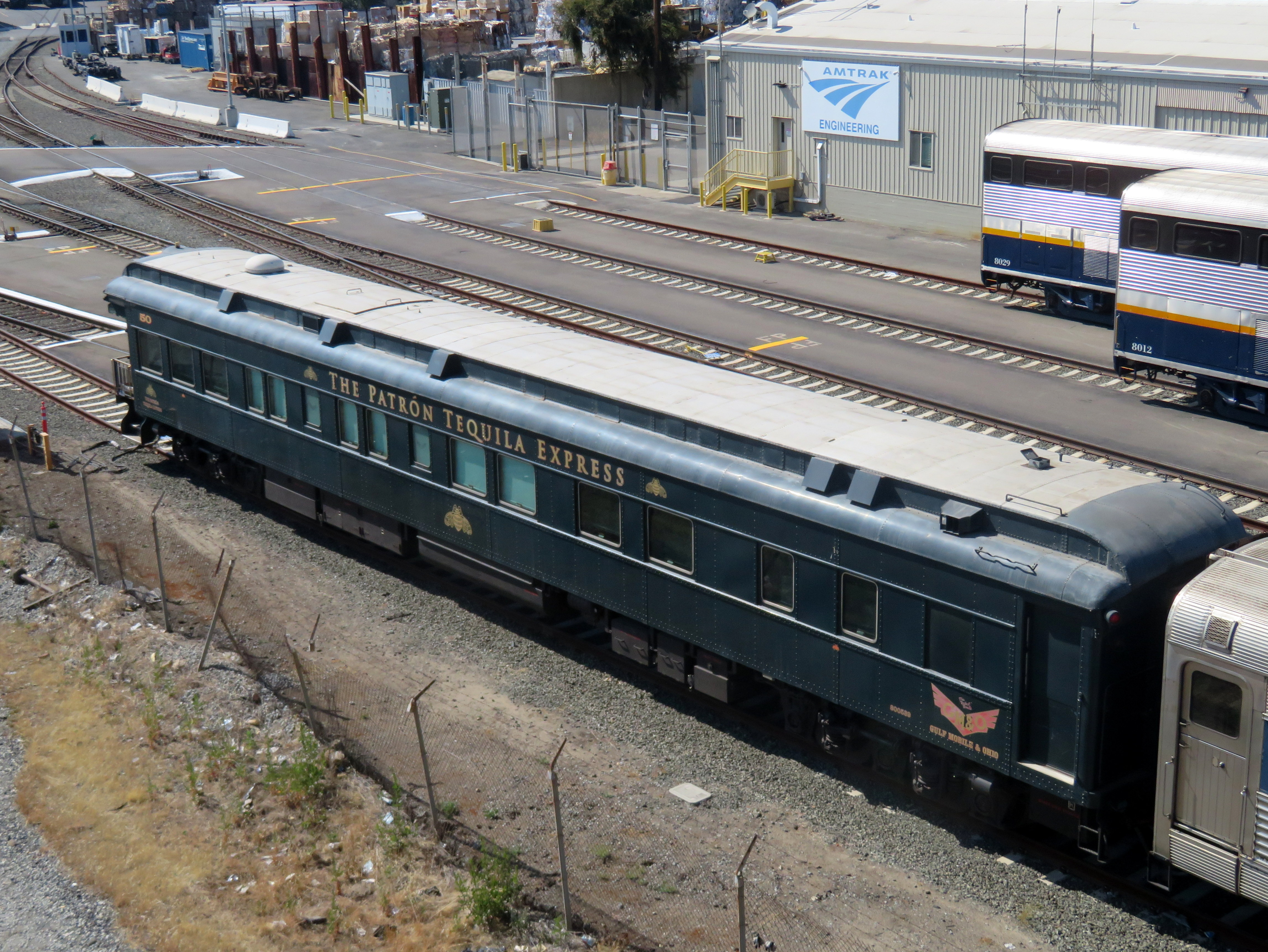 The Patrón Tequila Express at Oakland Maintenance Facility in July 2019